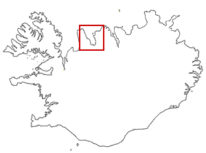 Skagafjörður outlined on a map of Iceland